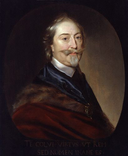 Sir Thomas Roe (c1581-1644)